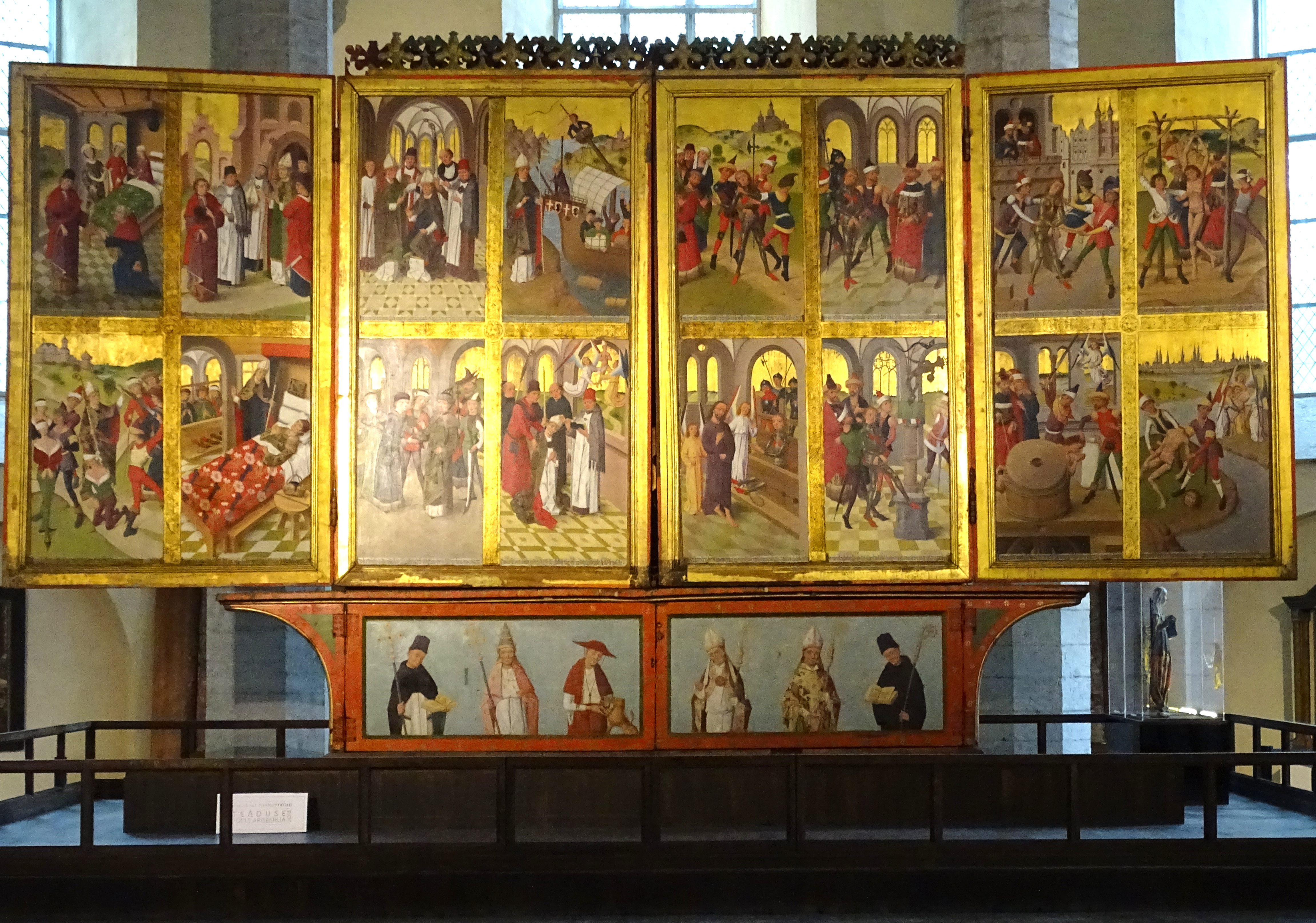 retable of the High Altar of st Nicholas' Church. Workshop of the Lübeck master Hermen Rode. 1478-1481. Niguliste kirik or St. Nicholas' Church is a medieval former church in Tallinn, Estonia.